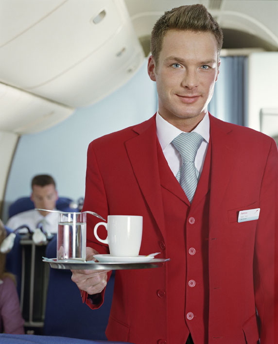 Austrian Airlines male flight attendant